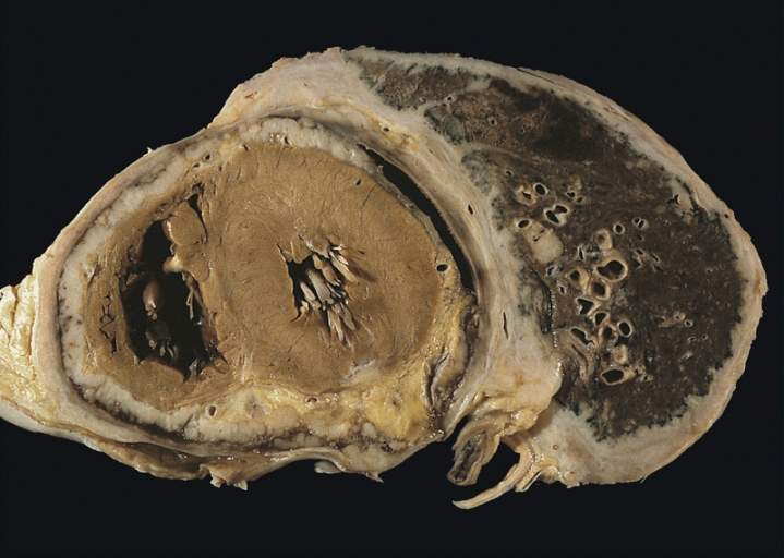 SEROSAL MEMBRANES: DIFFUSE PLEURAL MESOTHELIOMA Extensive involvement of the pericardium. (Courtesy of Dr. Samuel Hammar, Seattle, WA.)